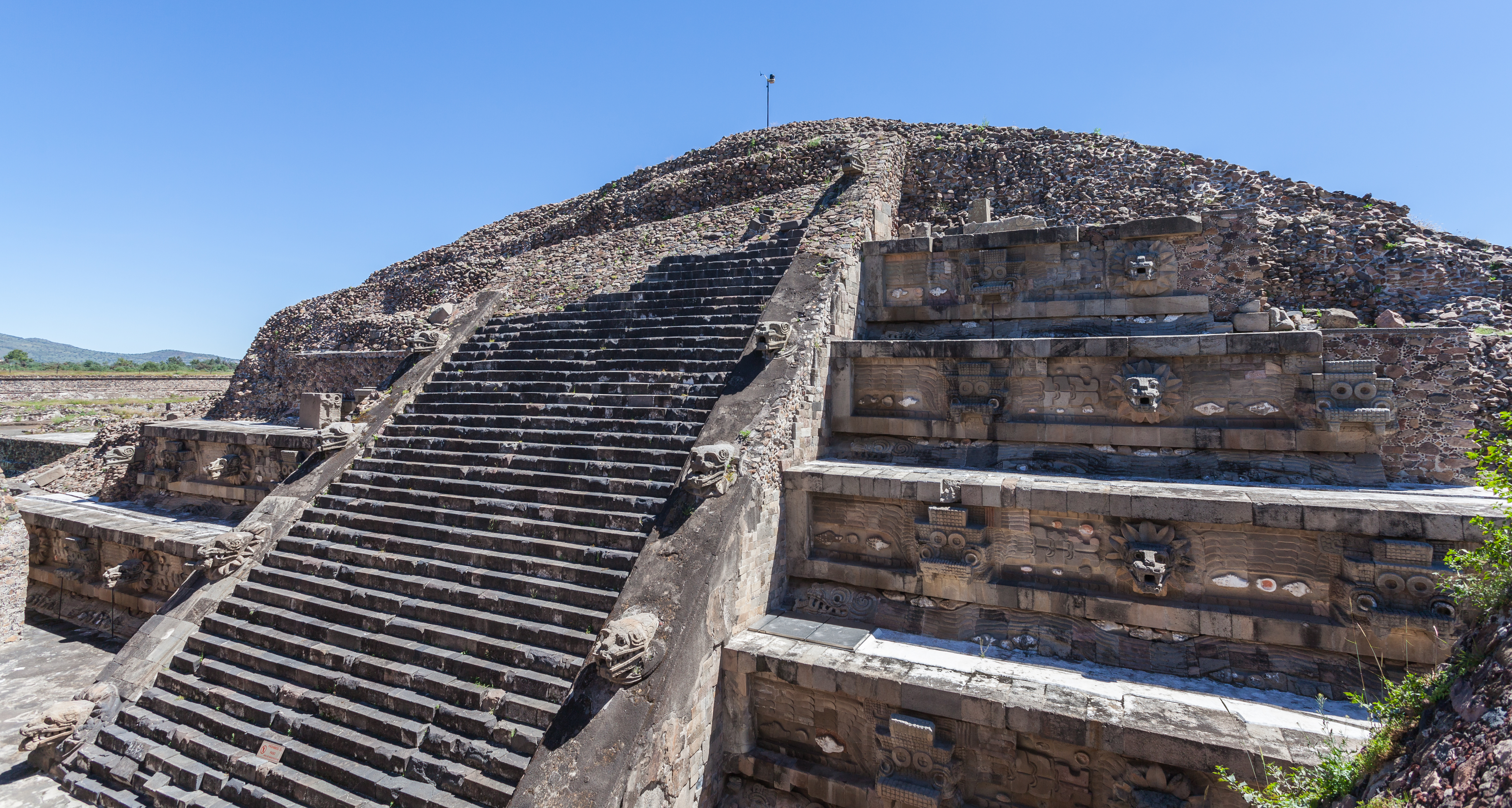 La Ciudadela, Teotihuacán, Mexico